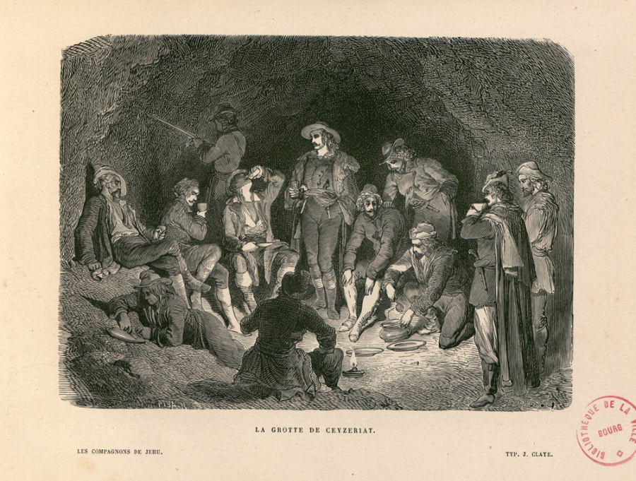 The Companions of Jehu, illustration by Gustave Doré to accompany the novel by Alexandre Dumas Les Compagnons de Jéhu Paris: Dufour, Mulat et Boulangers éditeurs, 1859. • Imprimé • Bibliothèque de Bourg-en-Bresse